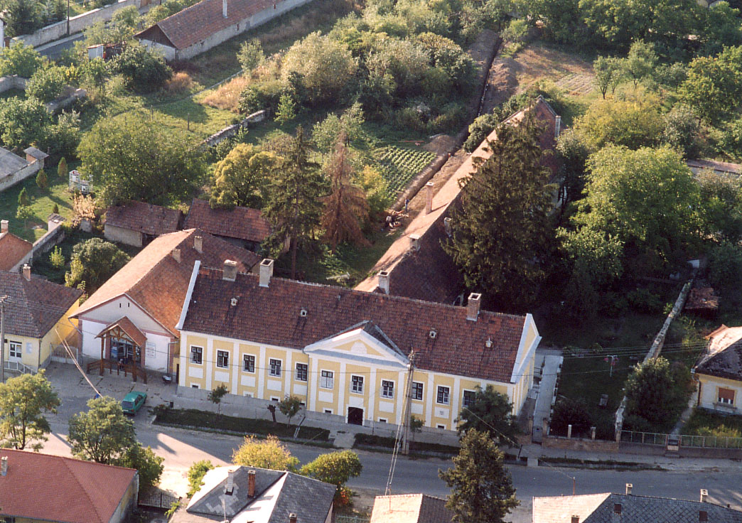 Palace - Erdőbénye - Hungary -Europe